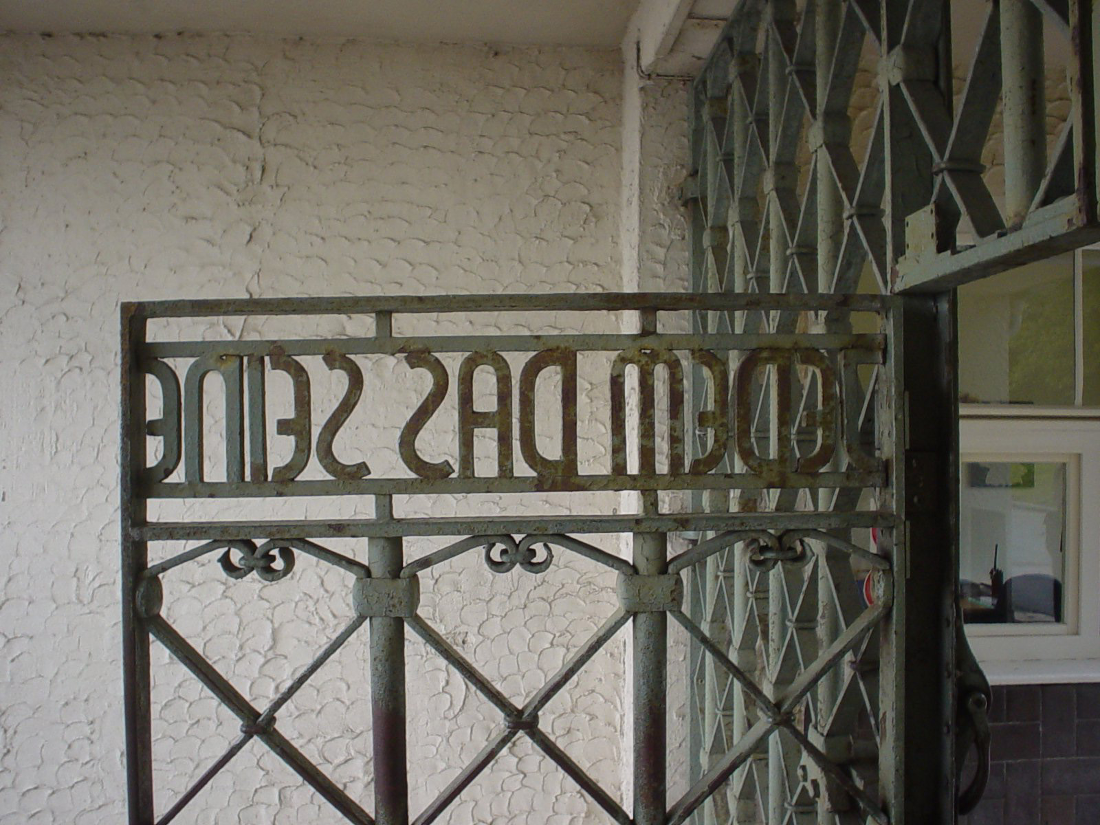 Gate of the KZ Buchenwald ("Jedem das Seine")